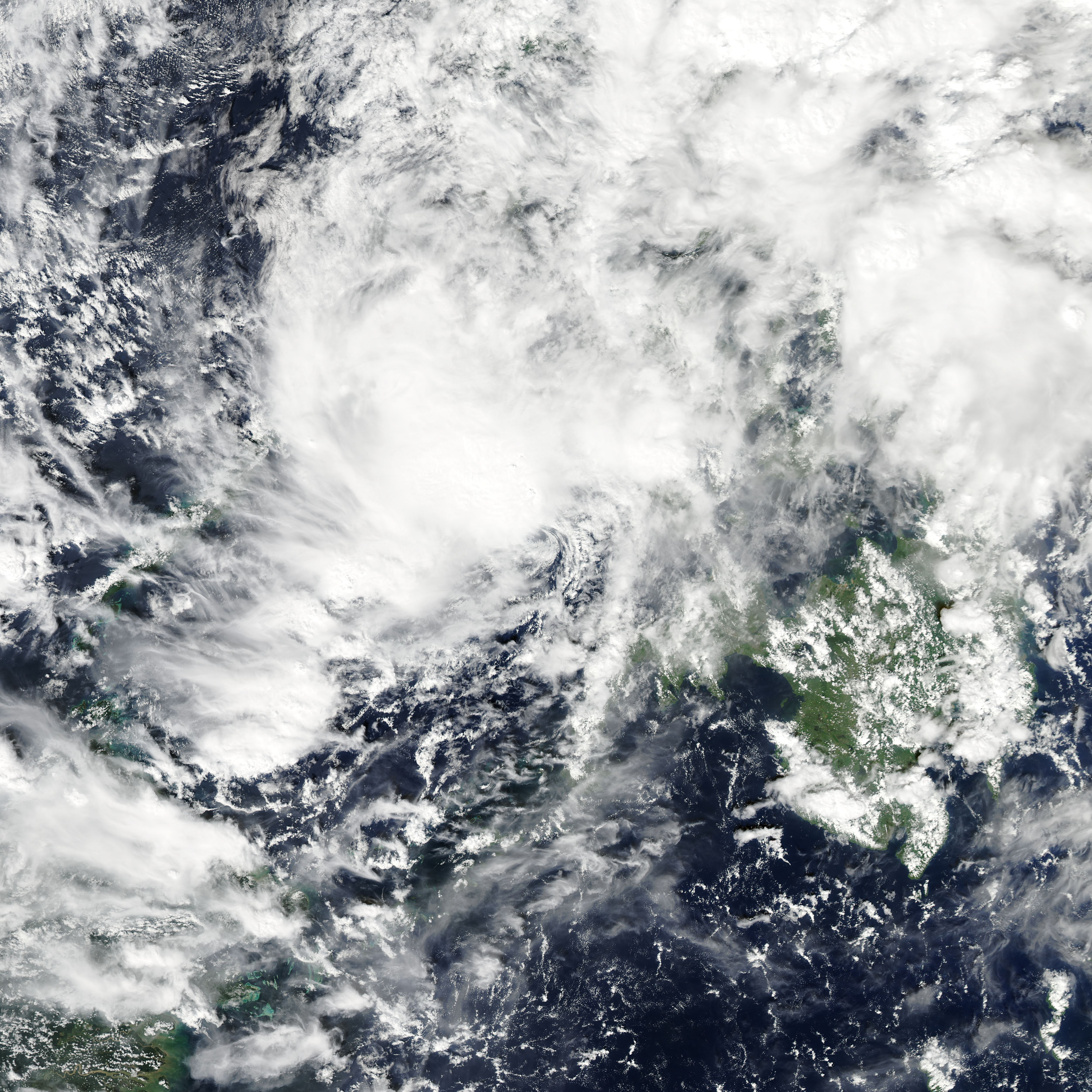 Tropical Storm Washi (Sendong) in the Sulu Sea on December 17, 2011, after causing catastrophic damage in Mindanao.